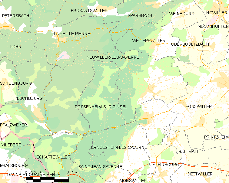 Map of French municipality